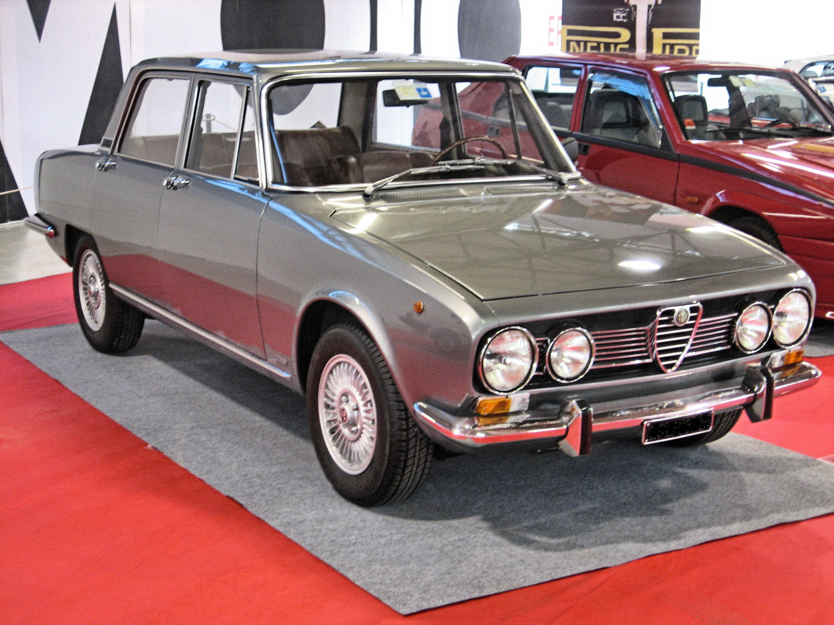 Subject: Alfa Romeo 1750 Author: Luc106 Date:March 13th, 2010 Event: Old Timer Forlì Place/Country: Palasport Forlì, Forlì (Italy) I release all rights in the public domain.